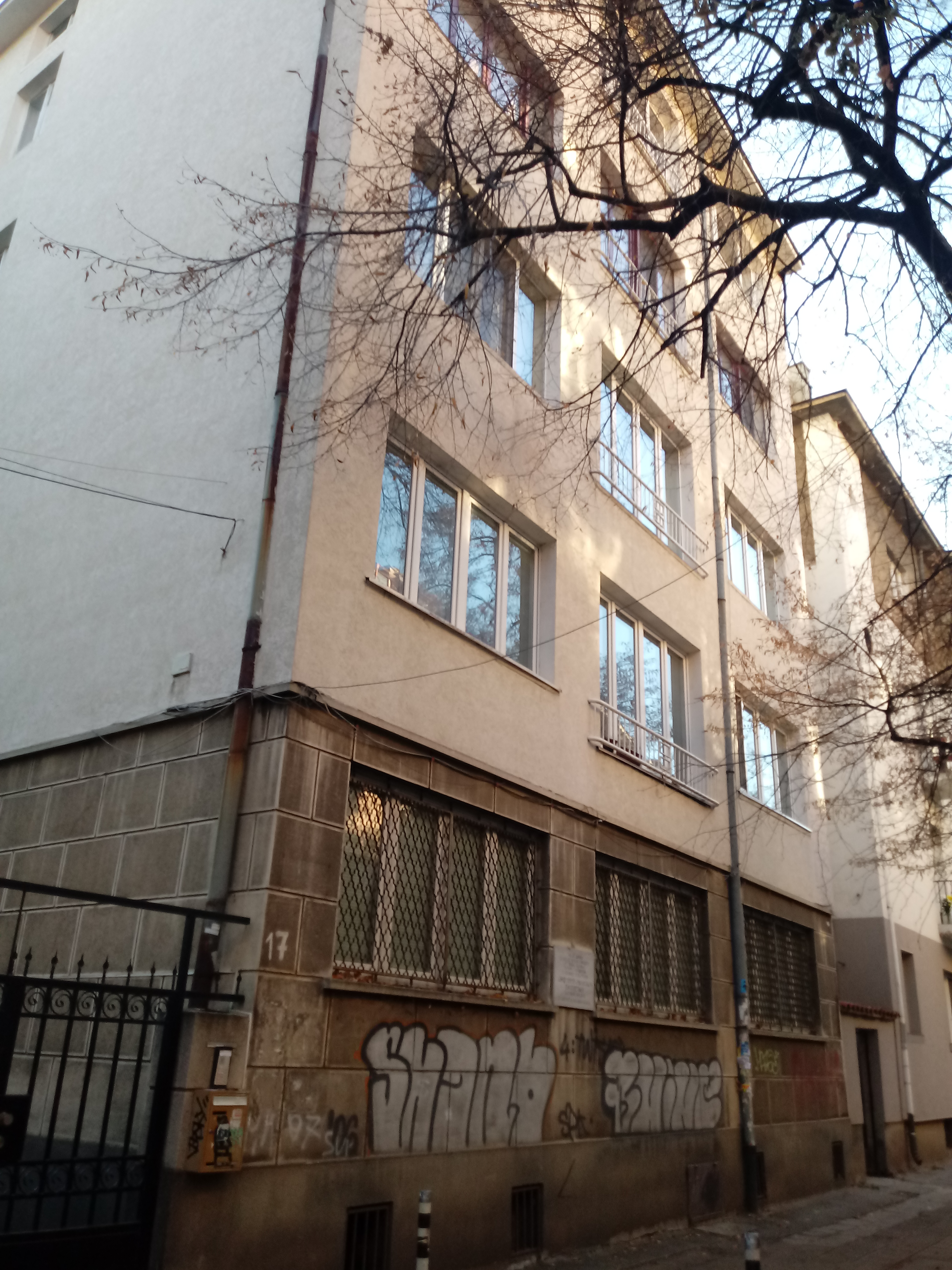 Porfiriy Ivanovich Bahmetyev home with memorial plaque, 17 Krakra Str., Sofia